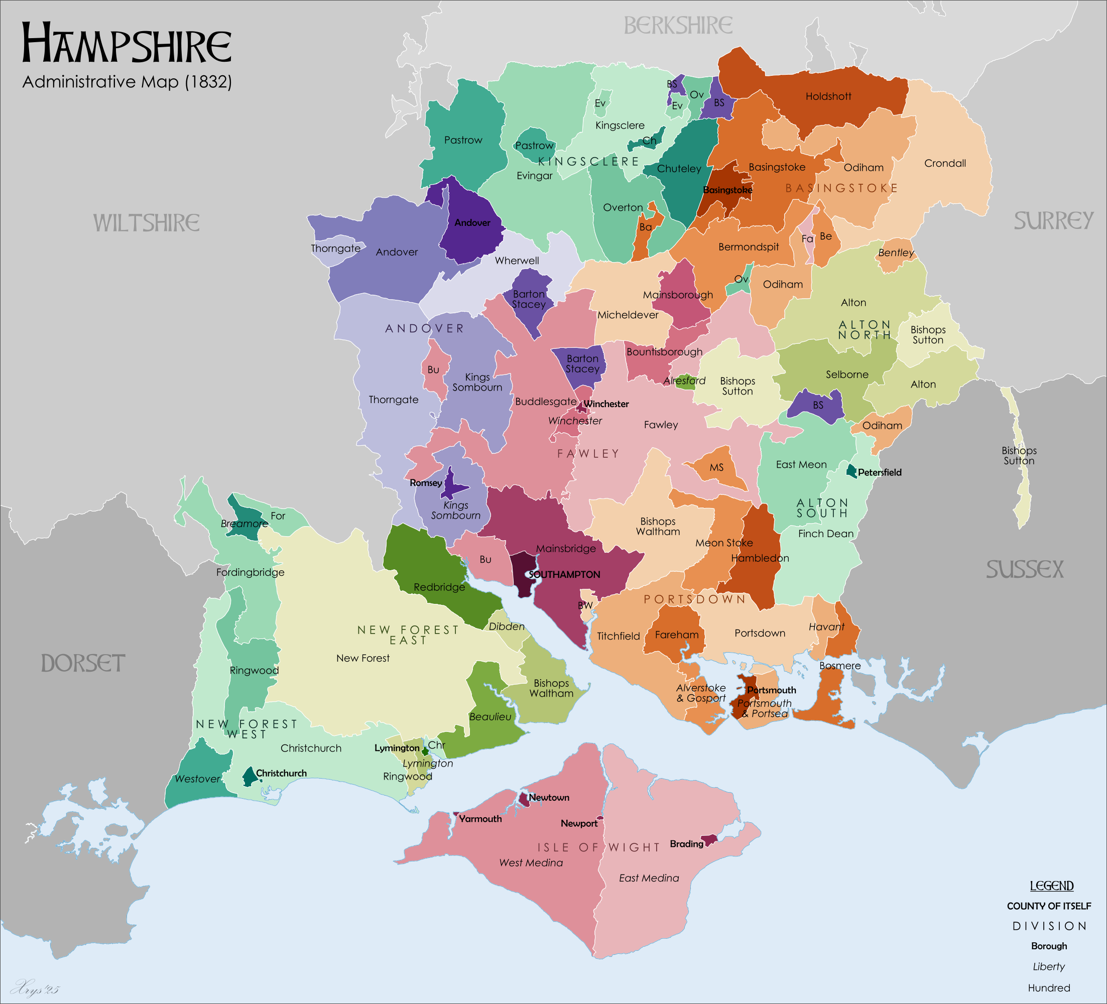 Administrative map of the ancient county of Hampshire in 1832. Showing Hundreds, Liberties, extant Boroughs and the County of the City of Southampton. Source data for parish boundaries - Kain, R.J.P., and Oliver, R.R. (2001) "Historic parishes of England and Wales". Unit names from Vision of Britain website.